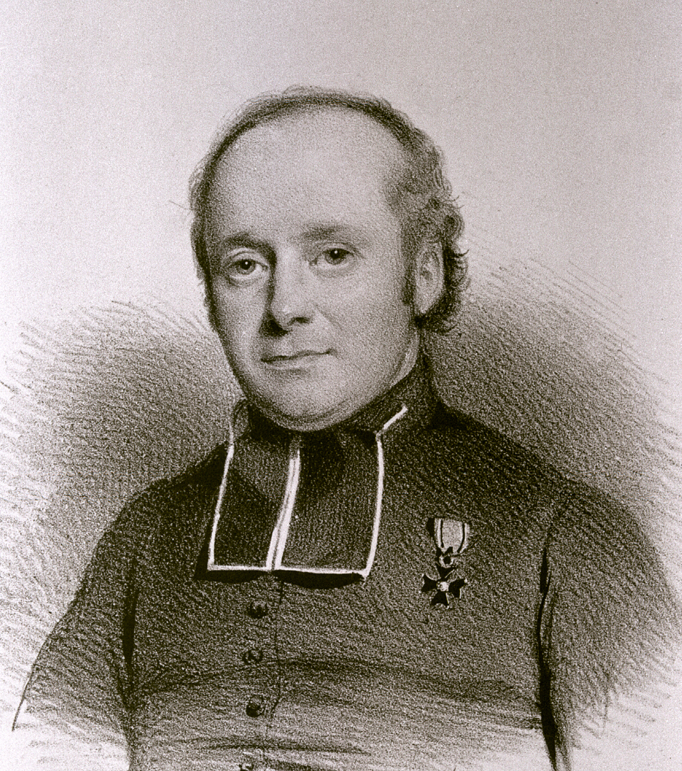 Portrait of Joseph-Olivier Andries (1796-1886), Belgian priest, politician and historian, by lithographer Charles Baugniet